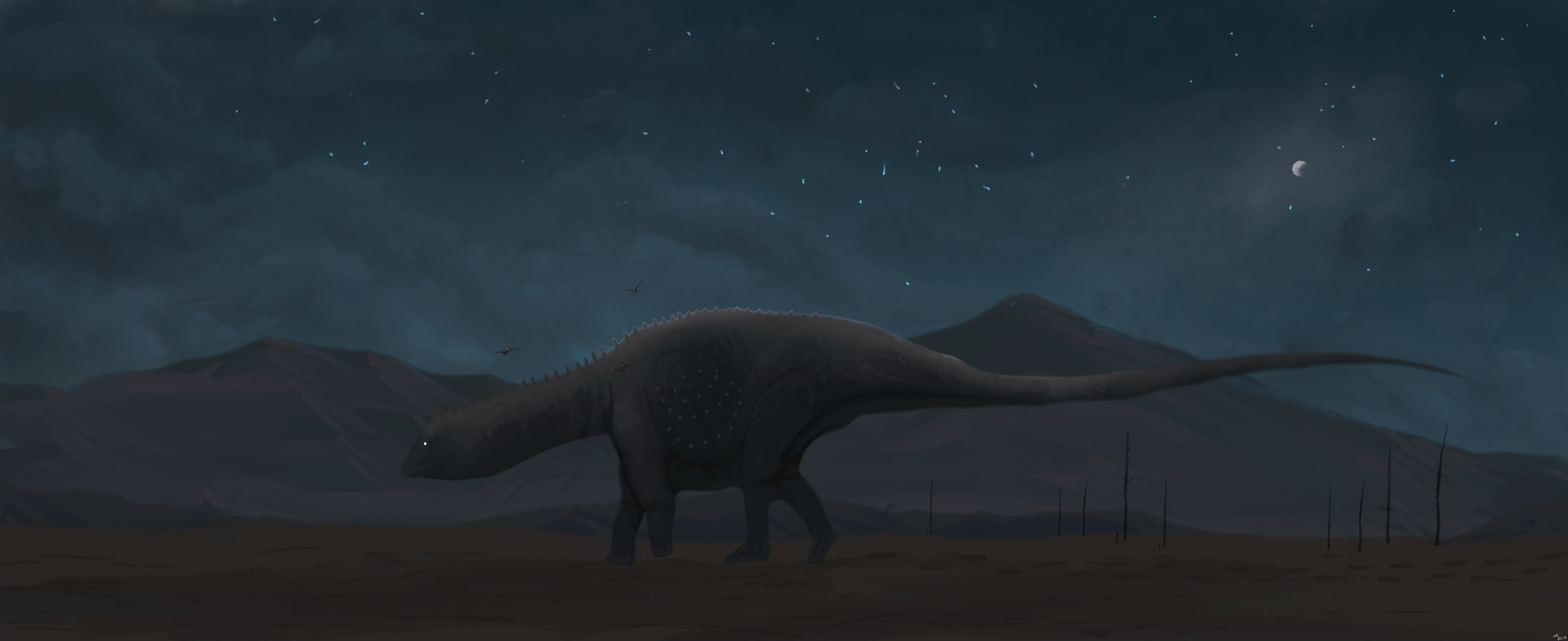 A reconstruction of Maraapunisaurus fragillimus walking in the darkness.